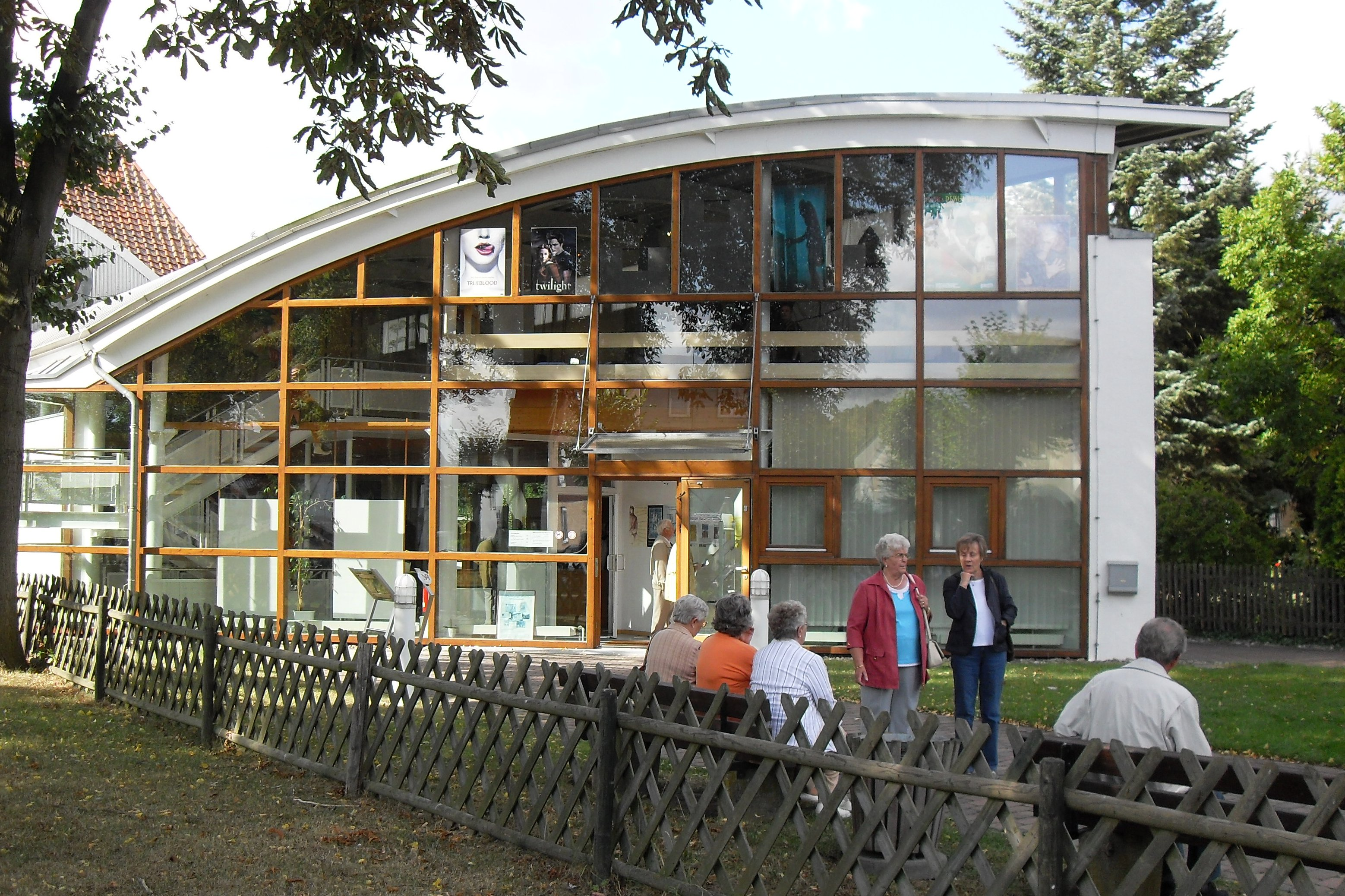 The Till Eulenspiegel museum in Schöppenstedt, Germany